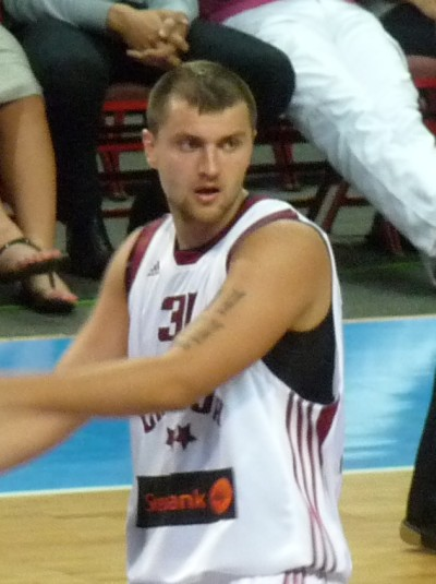 Artūrs Štālbergs (b.1984). Picture taken during friendly match between Latvia and Sweden.